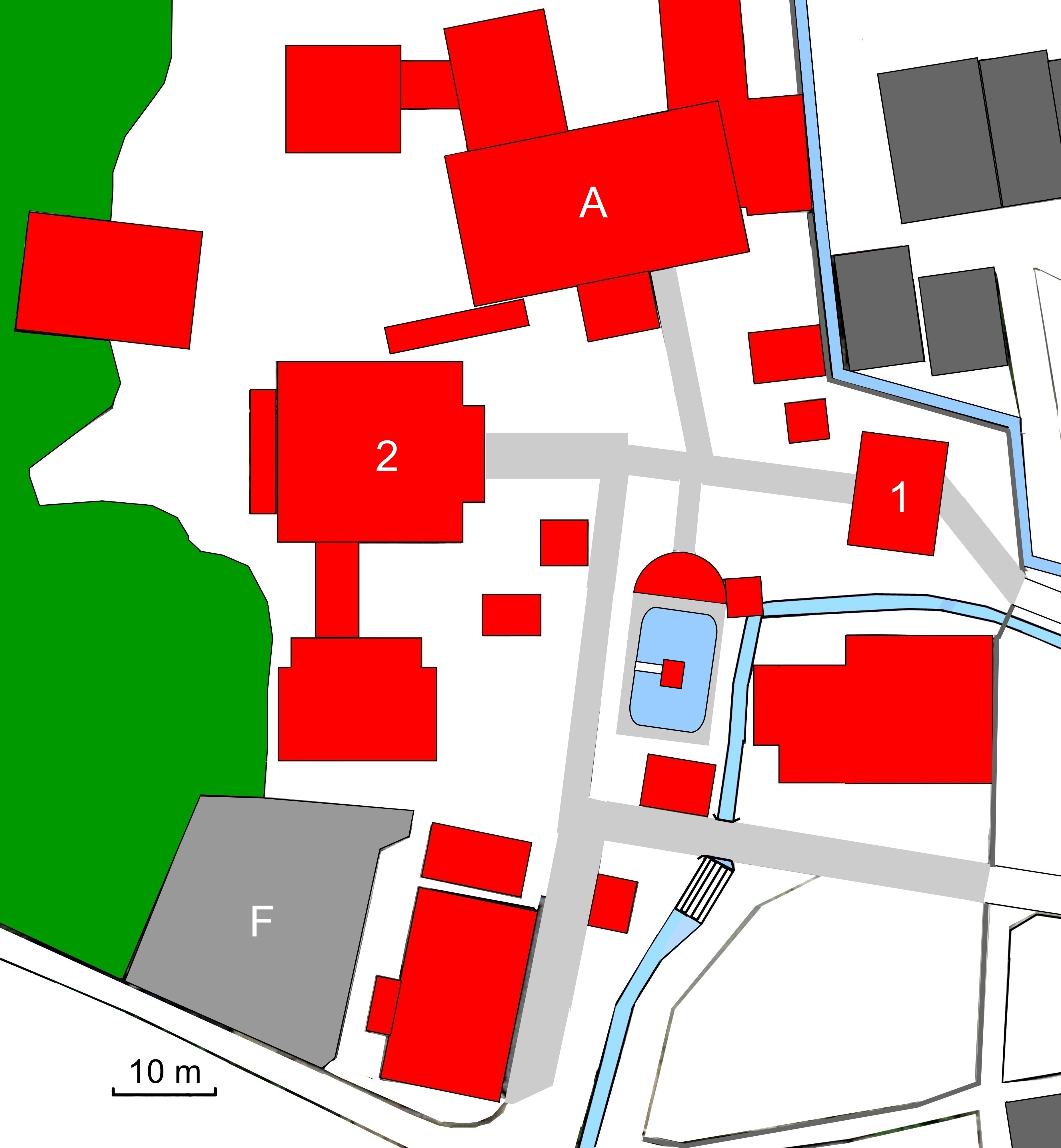 Layout of Kongōjō-ji temple, Hyogo prefecture, Japan